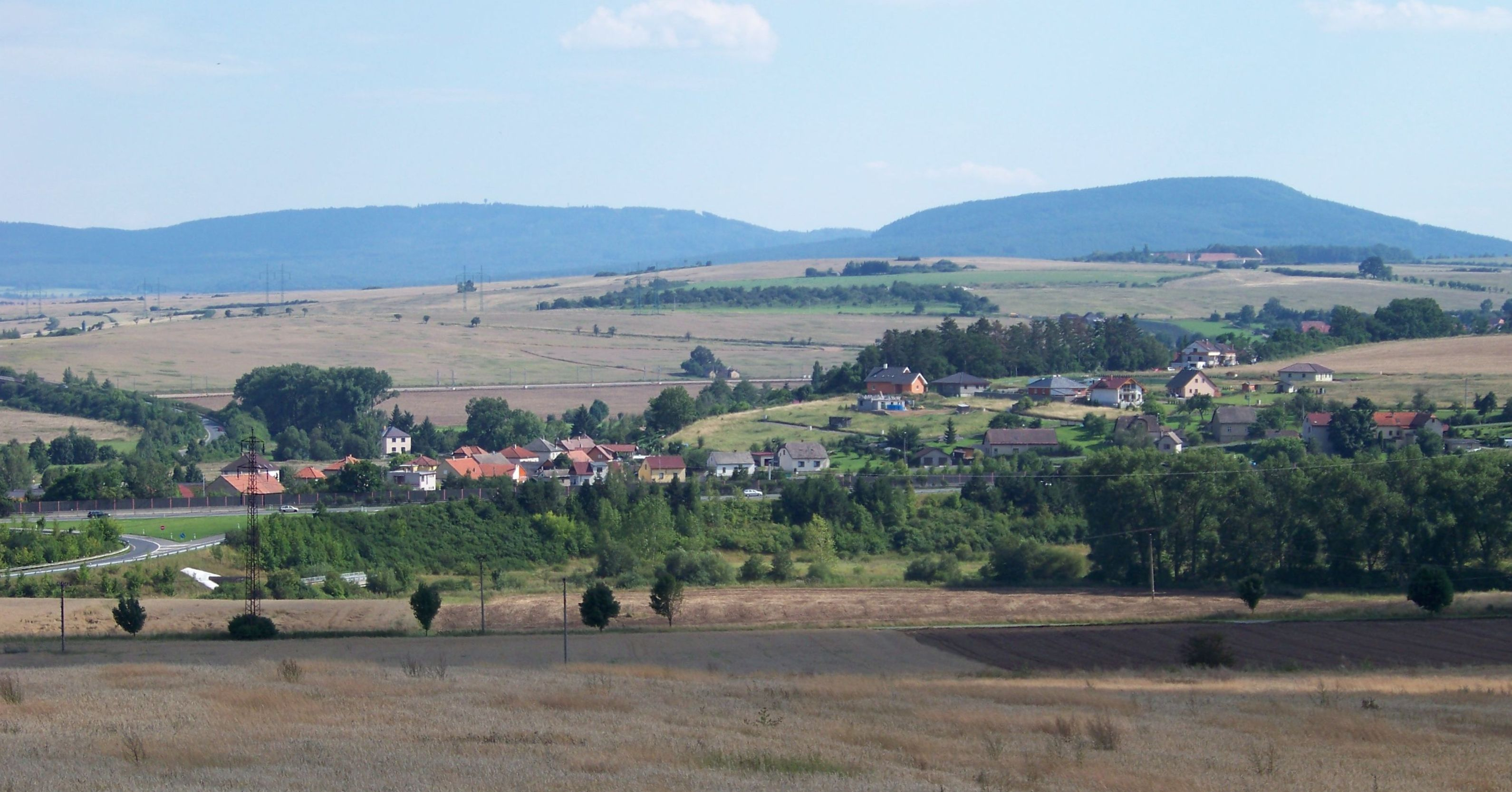 Bavoryně, Beroun District, Central Bohemian Region, the Czech Republic. A view from Knížkovice.